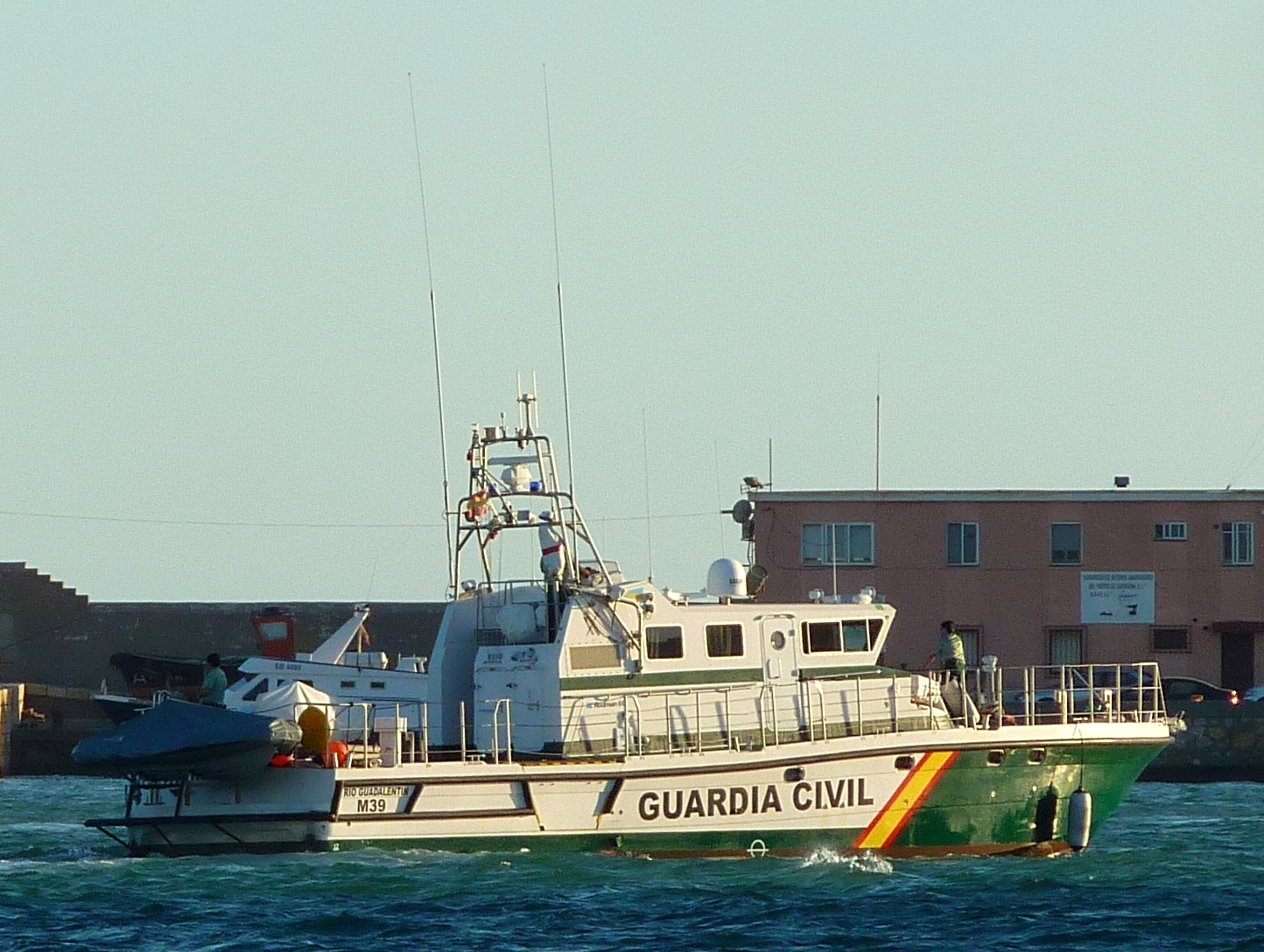 Rodman-66 class patrol craft "Río Guadalentín" of the Spanish Guardia Civil.